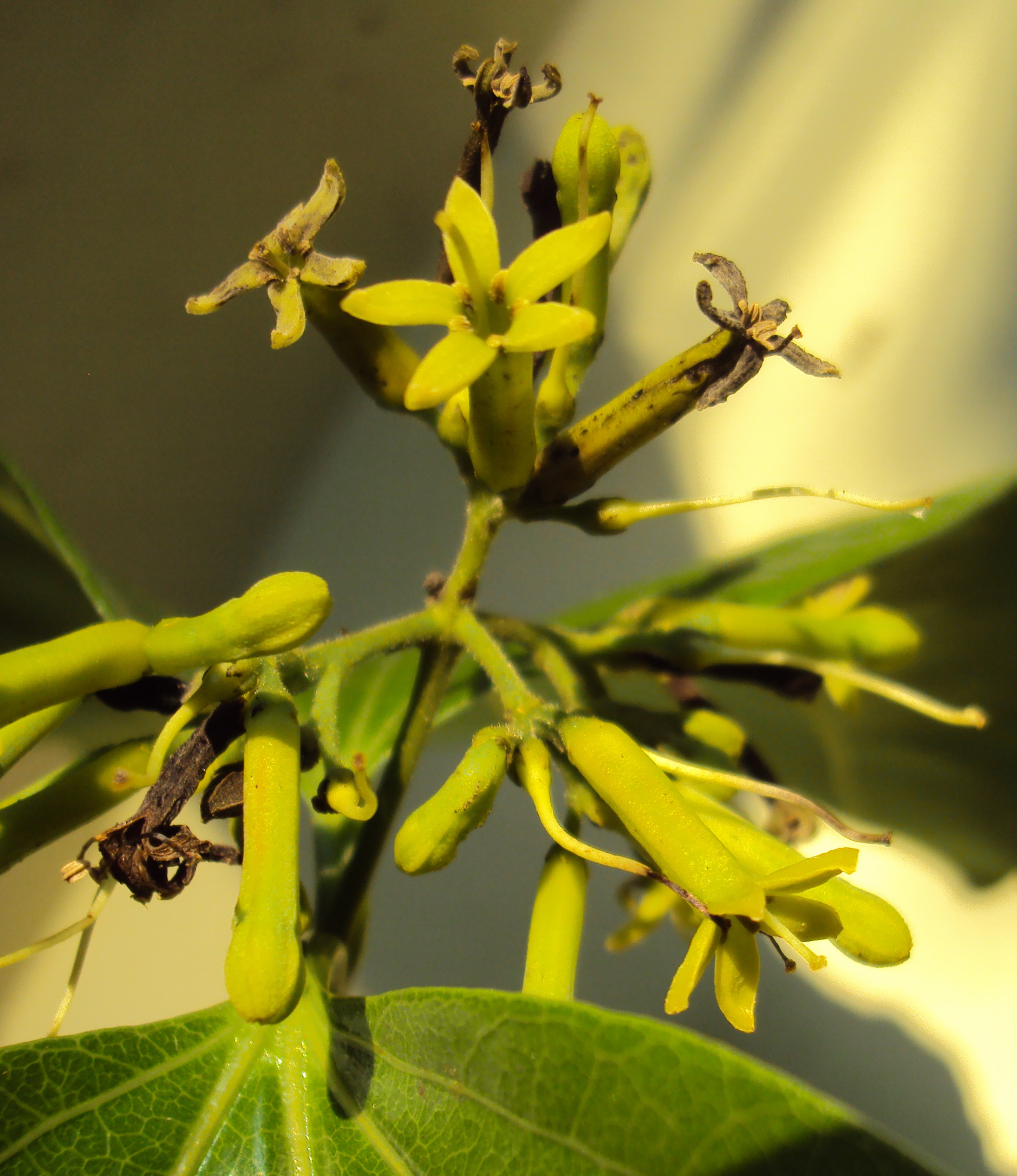 Strychnos nux-vomica